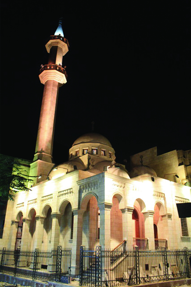 Salama Mosque at Basateen